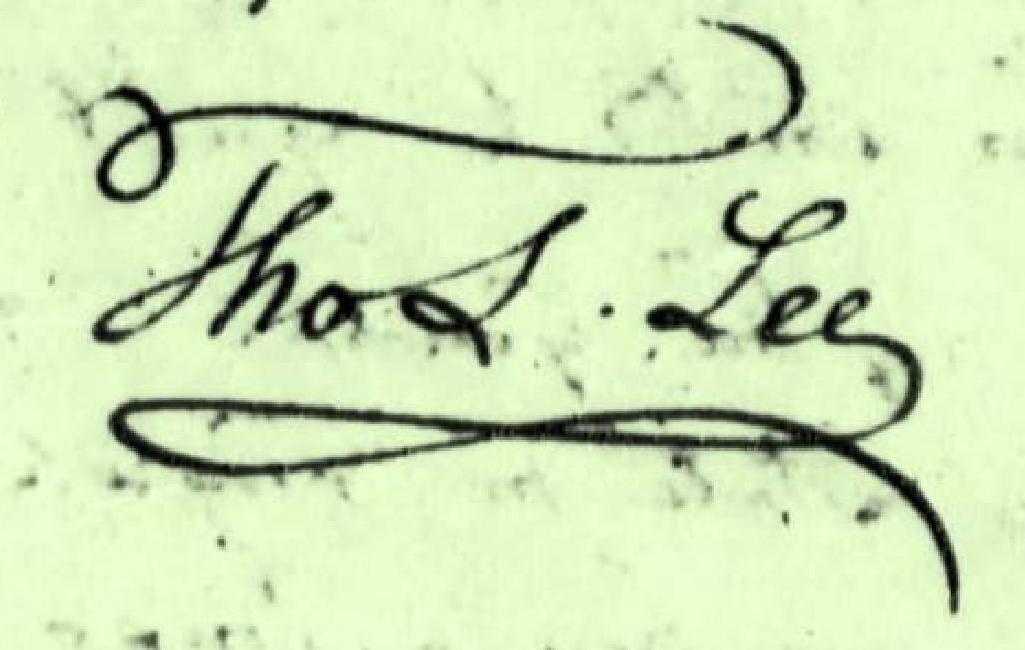 Photo of the signature of Thomas Sim Lee on the Act by the Maryland Legislature to ratify the Articles of Confederation and Perpetual Union